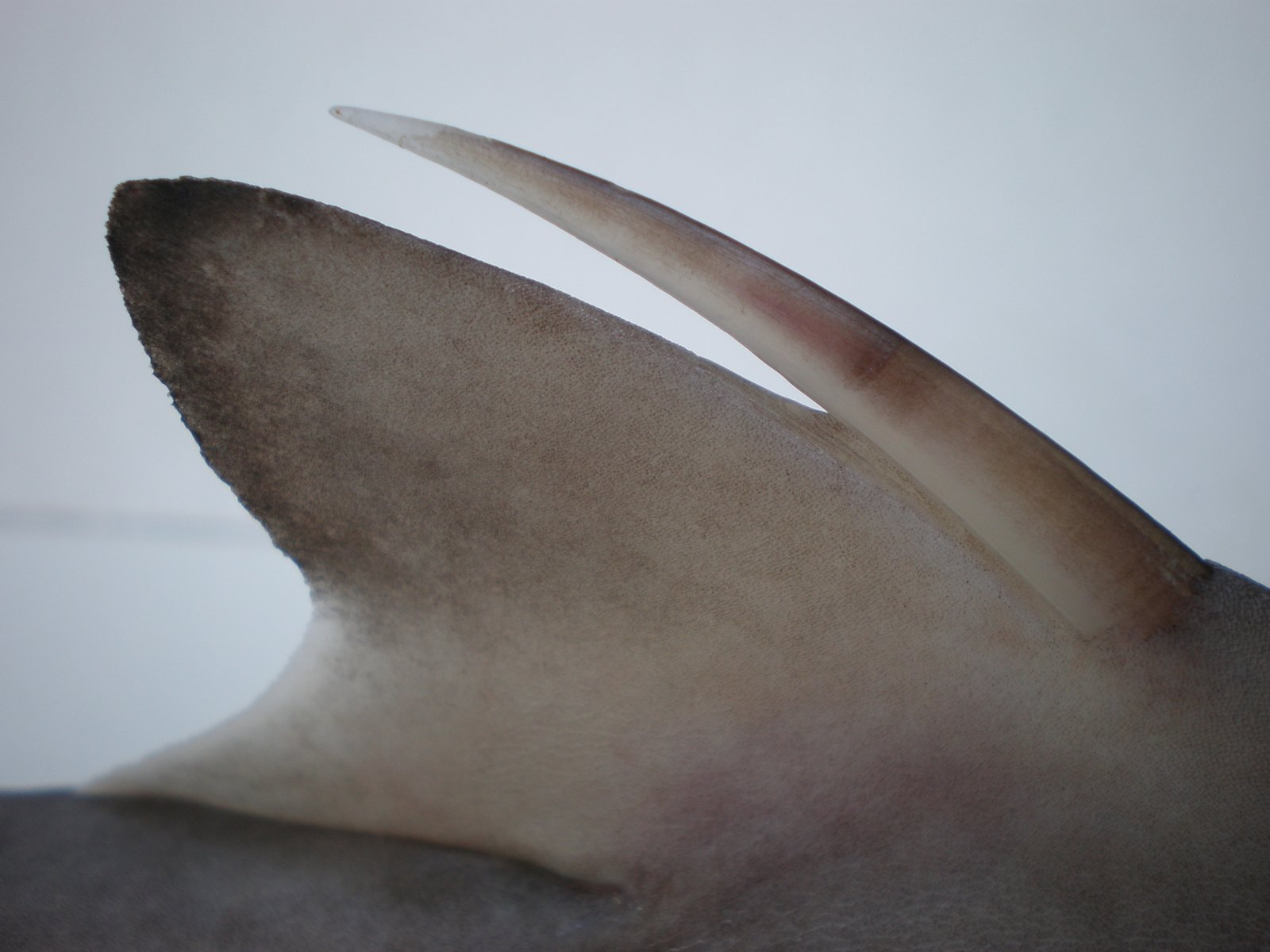 Squalus bucephalus. Detail of dorsal fin and spine. Locality: Off Récif Toombo, off Nouméa, New Caledonia. Date 2008-07-23.Specimen identified by Bernard Séret (IRD-MNHN). This photograph is also in FishBase.